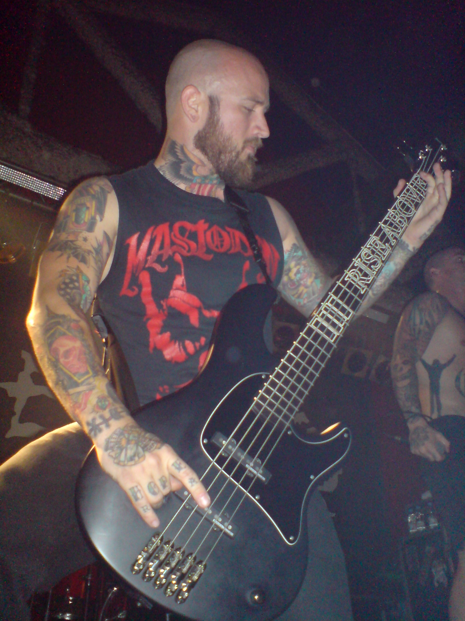 Ryan Wombacher during a Bleeding Through concert in Barcelona on May 6, 2009